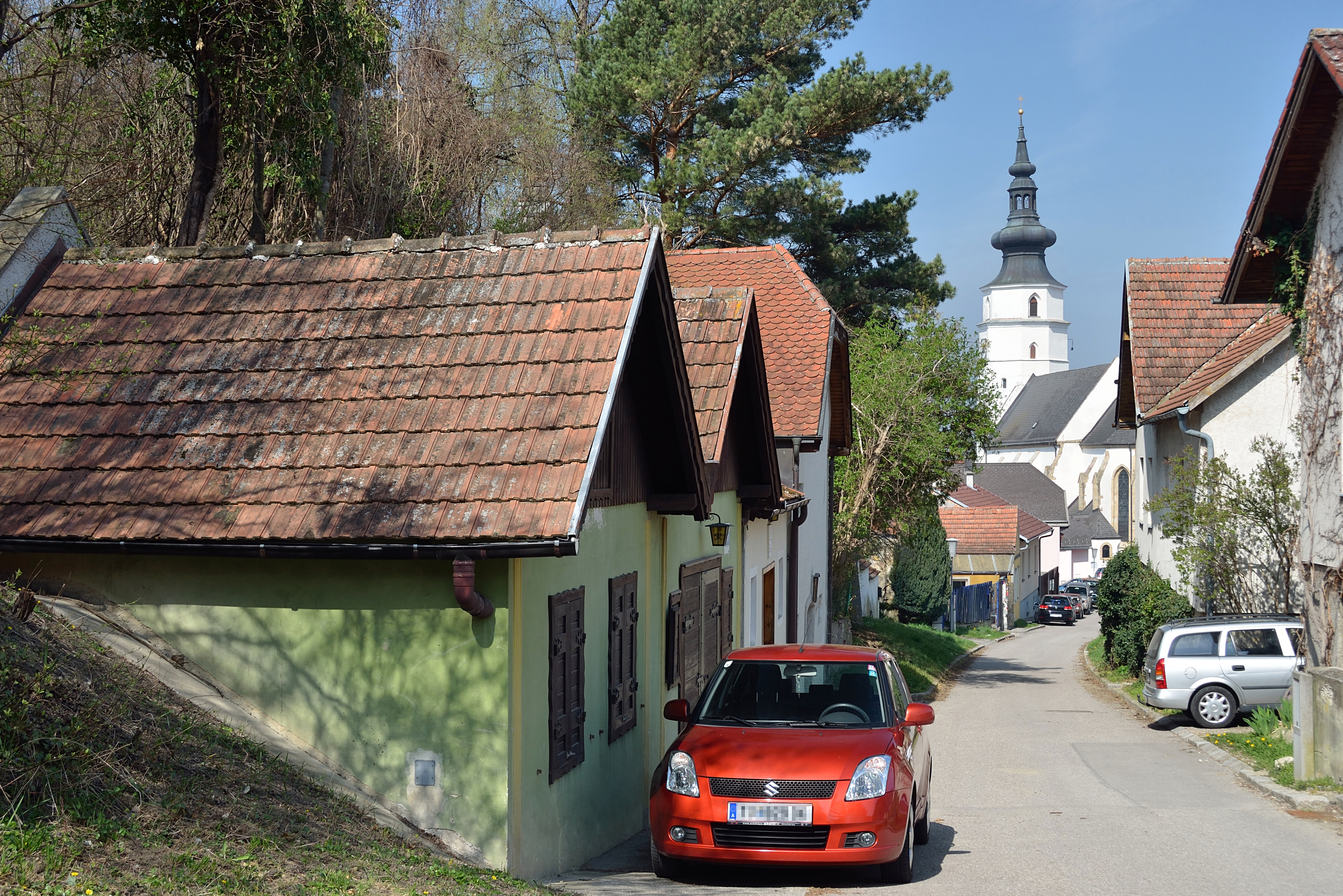 Kogelgasse with wine cellars and parish church Saint James the Greater in Königstetten, Lower Austria.